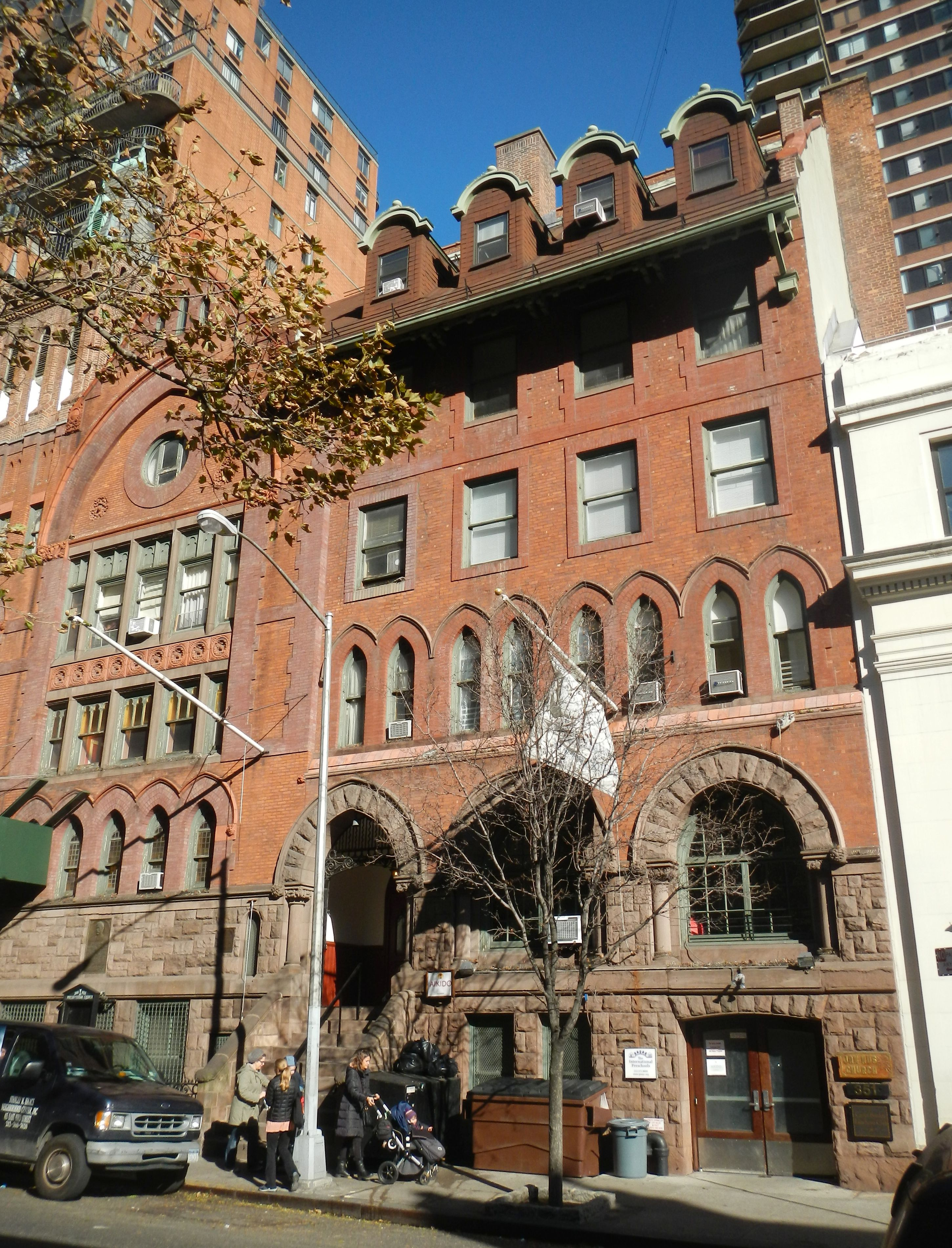 Looking north across 74th Street on a sunny midday.